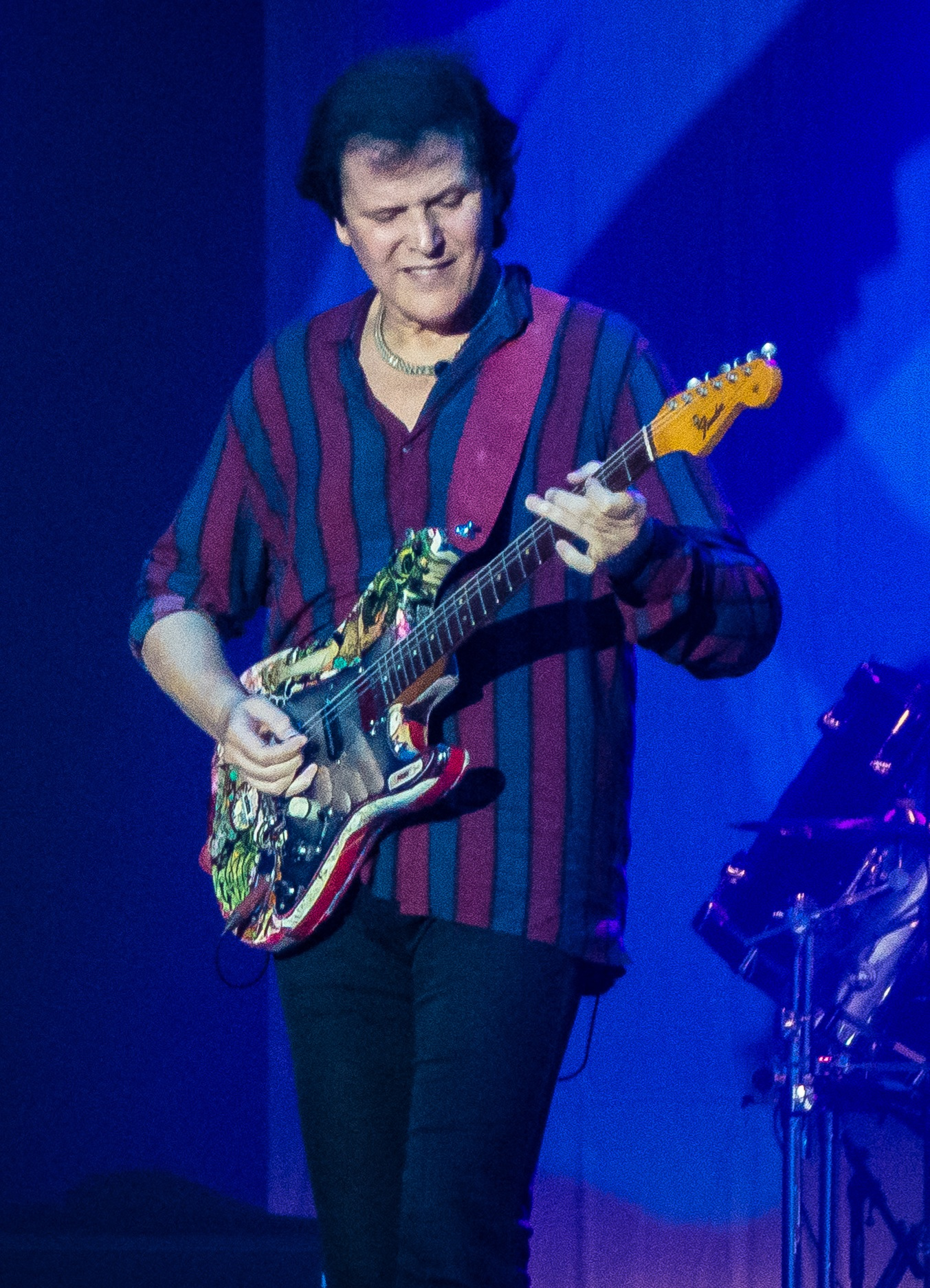 Trevor Rabin performing in July 2017.